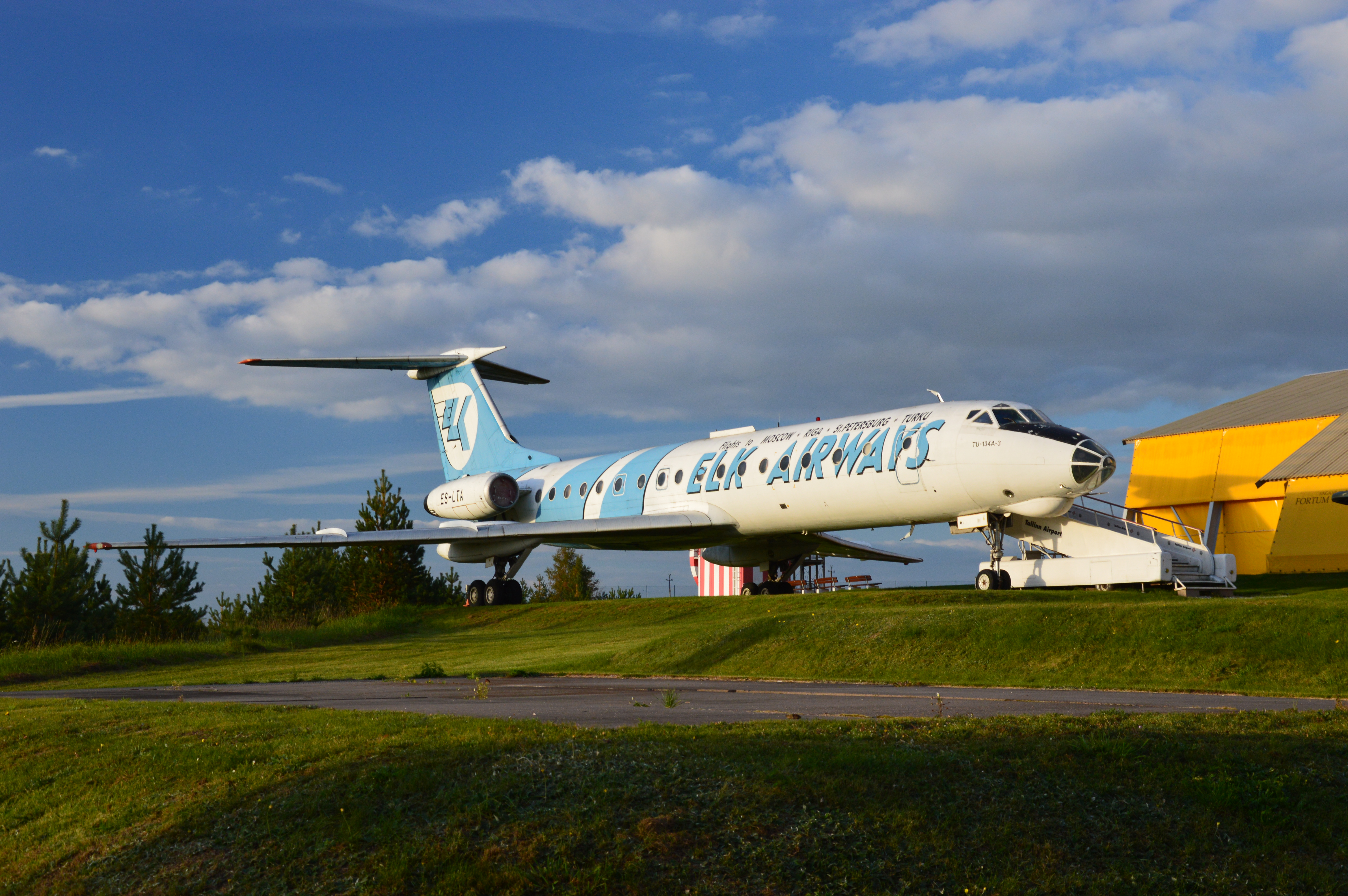 Tupolev Tu-134 that belonged to ELK Airways (Estonian aviation company active in 1991-2001).